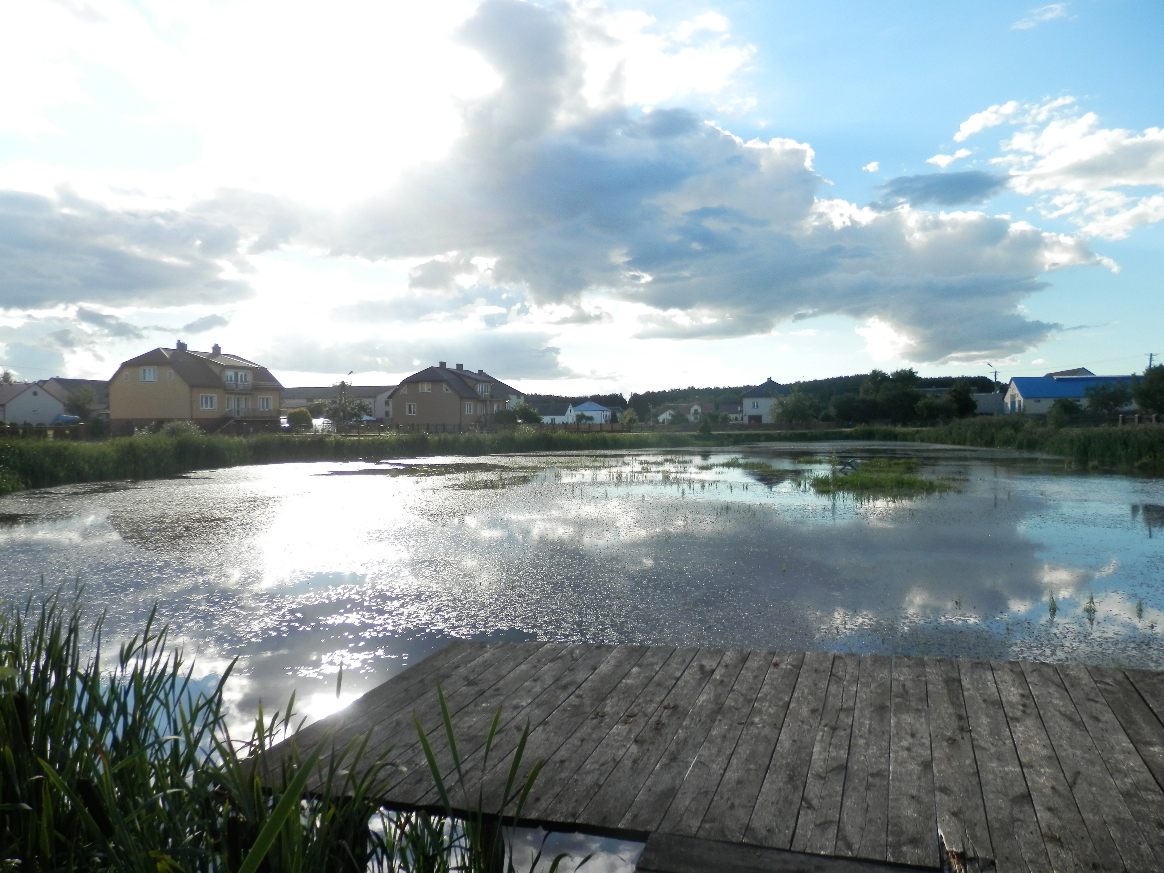 Debniki - part of the village, Podlaskie Voivodeship - Poland